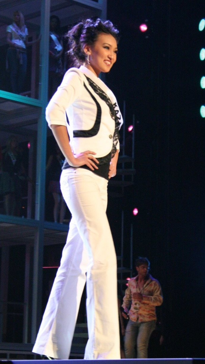 Gauhar Rakhmetalieva, Miss Kazakhstan 2007, during rehearsals for the Miss Universe 2007 pageant in Mexico City, Mexico